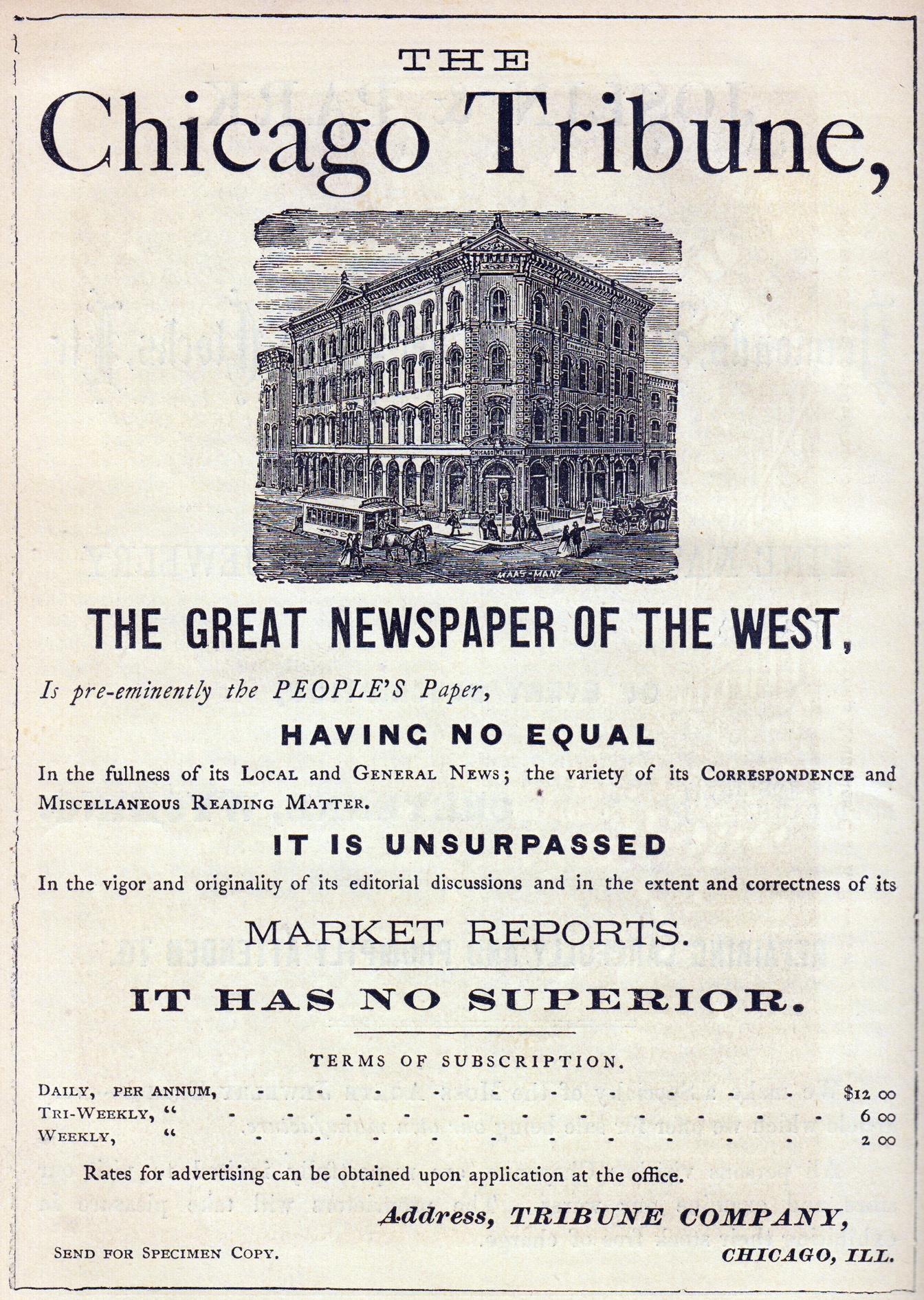 Display advertisement for the Chicago Tribune newspaper, 1870